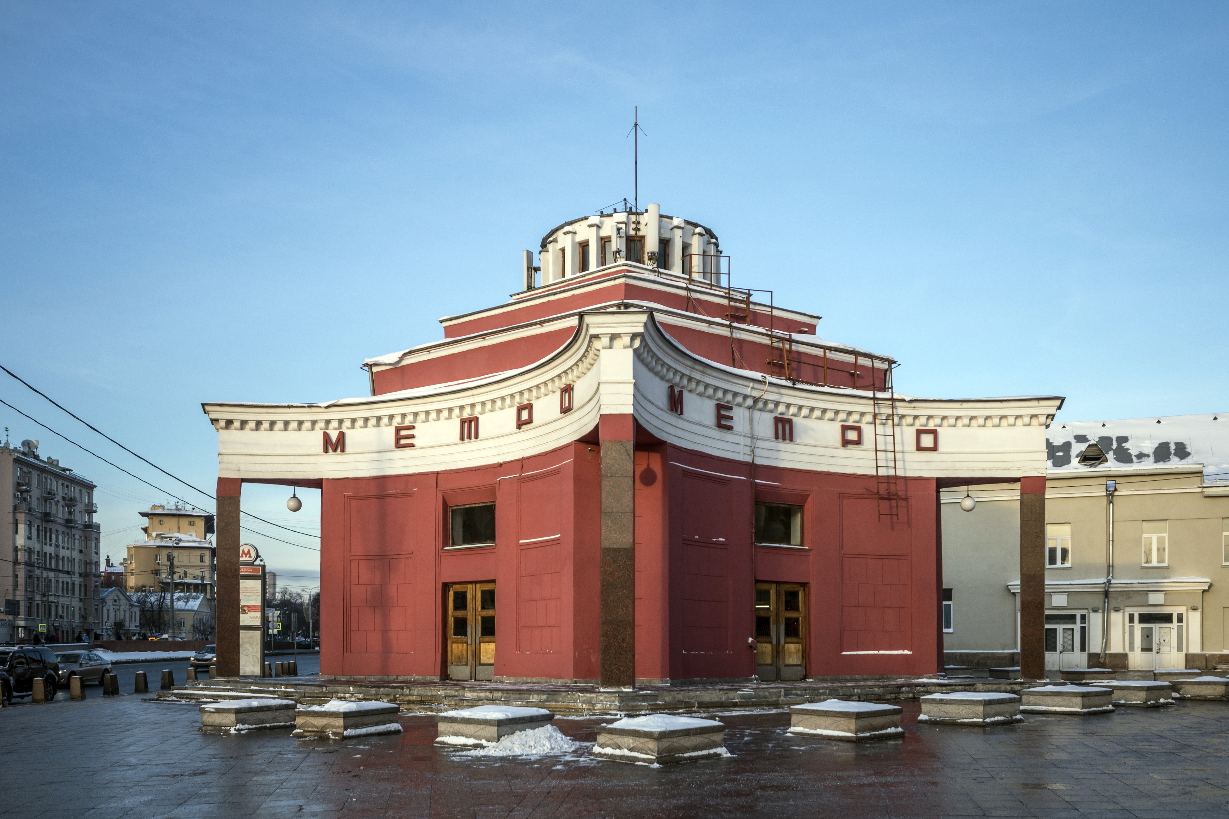 Arbatskaya Station of Moscow Subway, pavilion